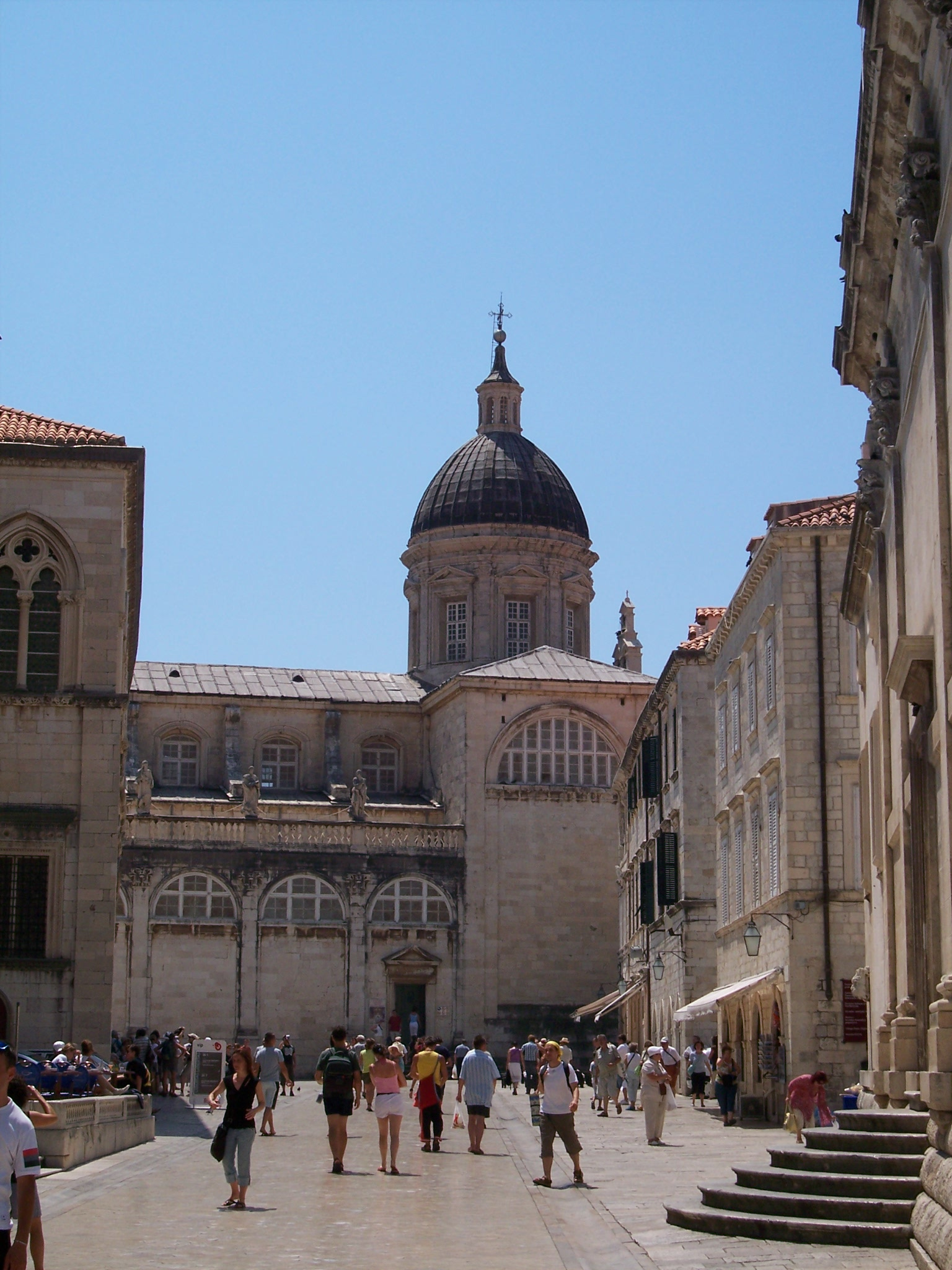 Cathedral of the Assumption of the Virgin Mary (Velika Gospa) in Dubrovnik (Croatia)